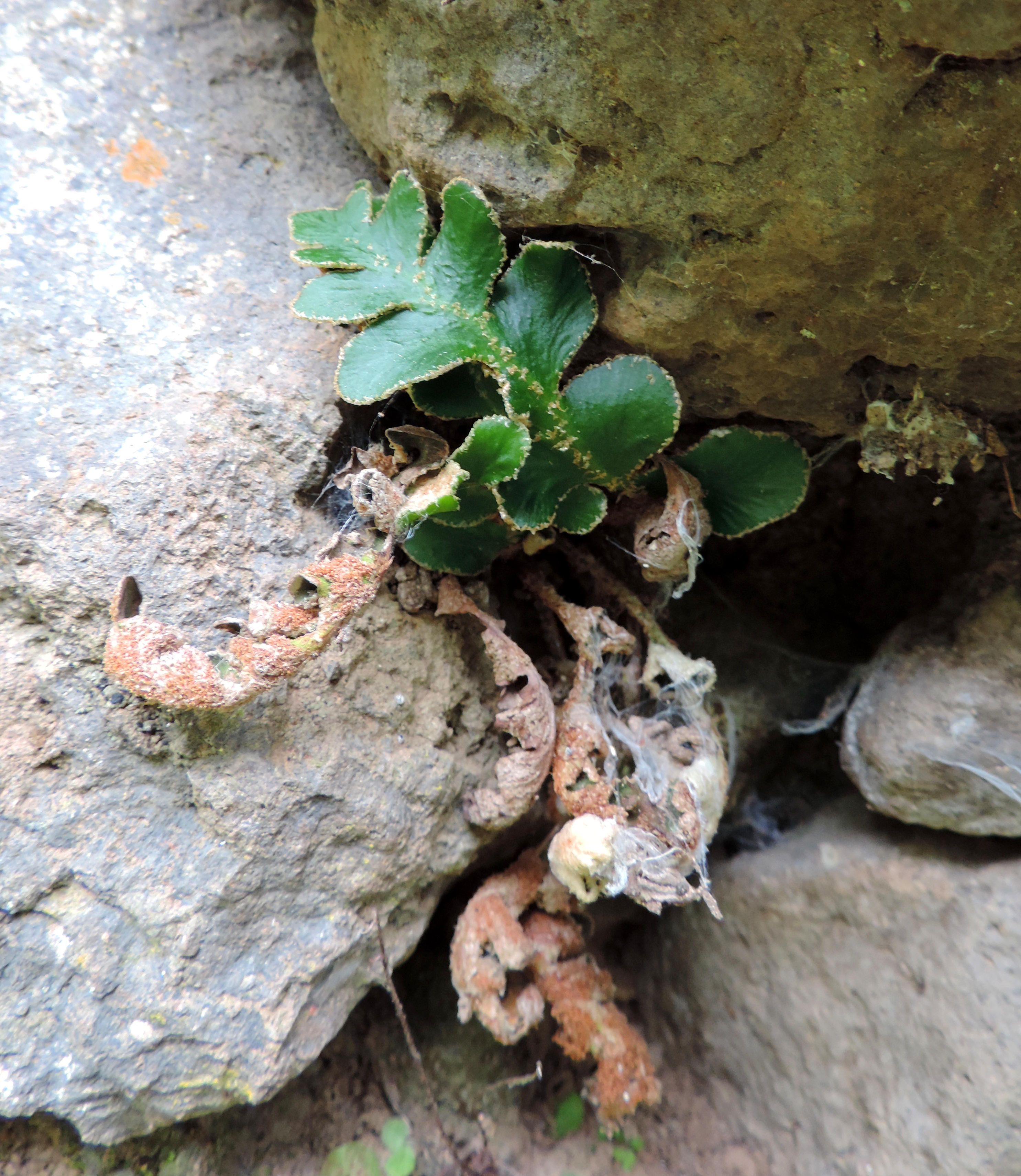 Asplenium aureum in Barranco de Guayadeque (Gran Canaria)